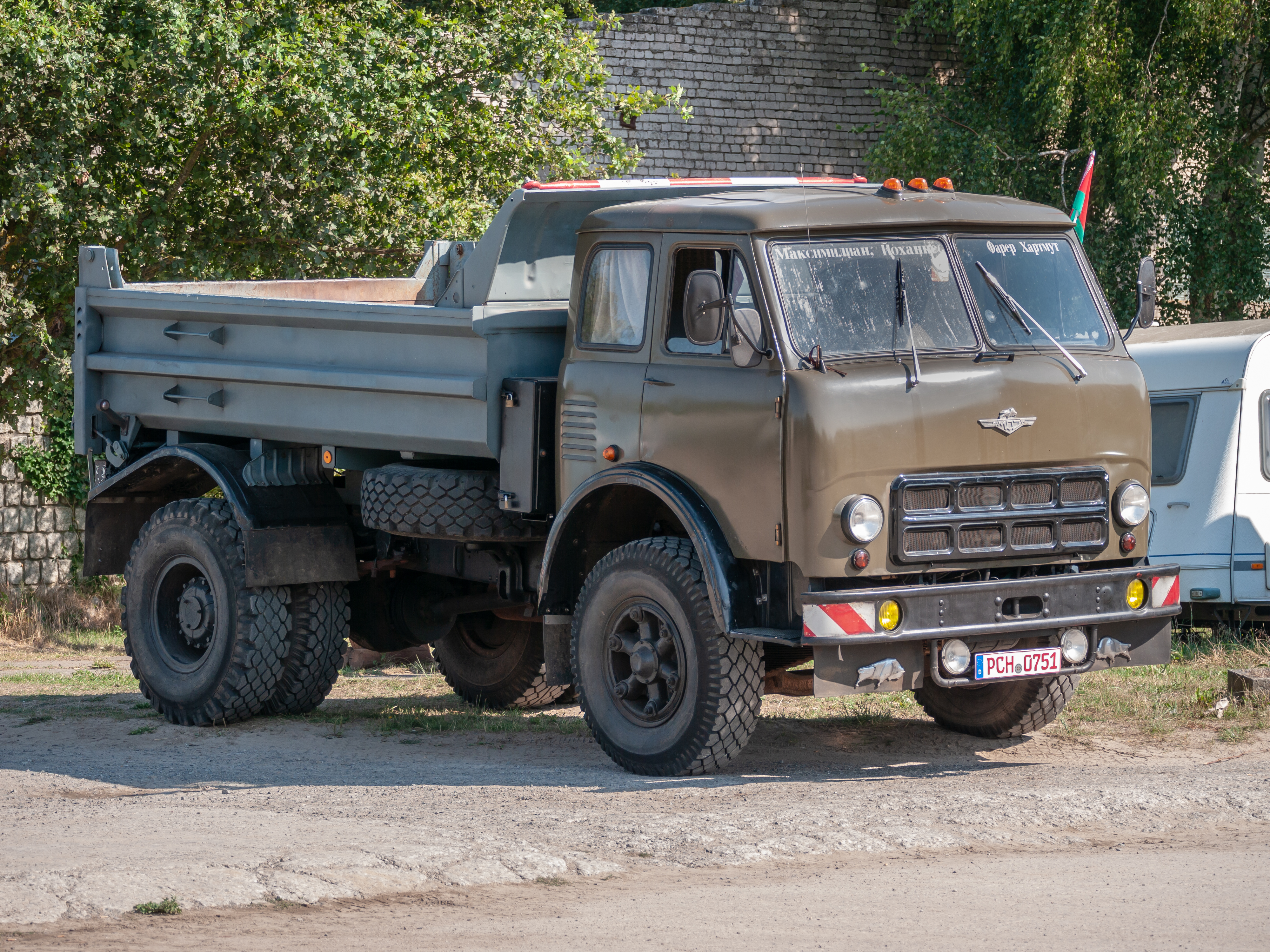 MAZ truck at 12. Internationales Maritimes-Fahrzeugtreffen